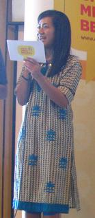 Cipta Media Bersama recipients standing with Anggara and Nia Di Nata at the grant ceremony